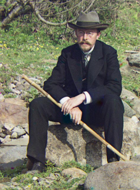 detail of the photograph "Po r. Karolitskhali" or "On the Karolitskhali River" showing Sergei Mikhailovich Prokudin-Gorskii. Early color photograph from Russia, created by Sergei Mikhailovich Prokudin-Gorskii as part of his work to document the Russian Empire from 1909 to 1915.